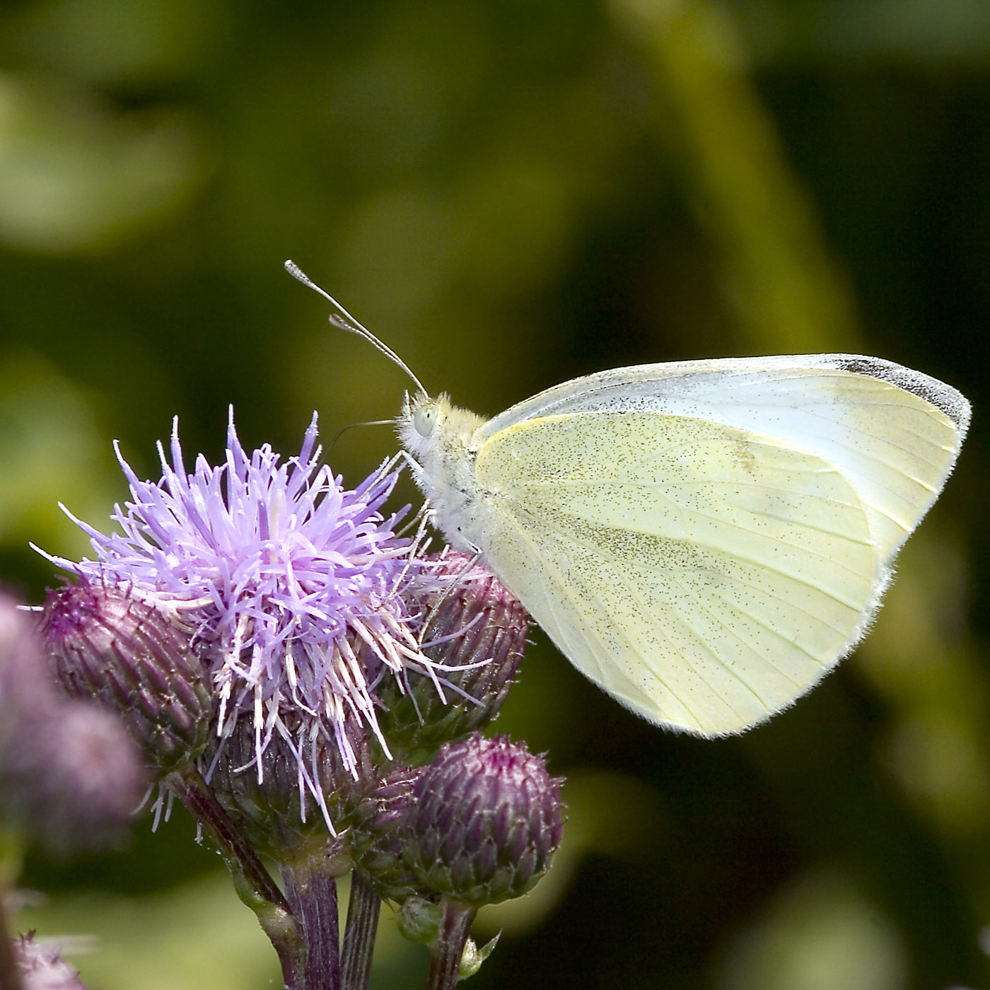 Small White (Pieris rapae) on heads of Cirsium arvense